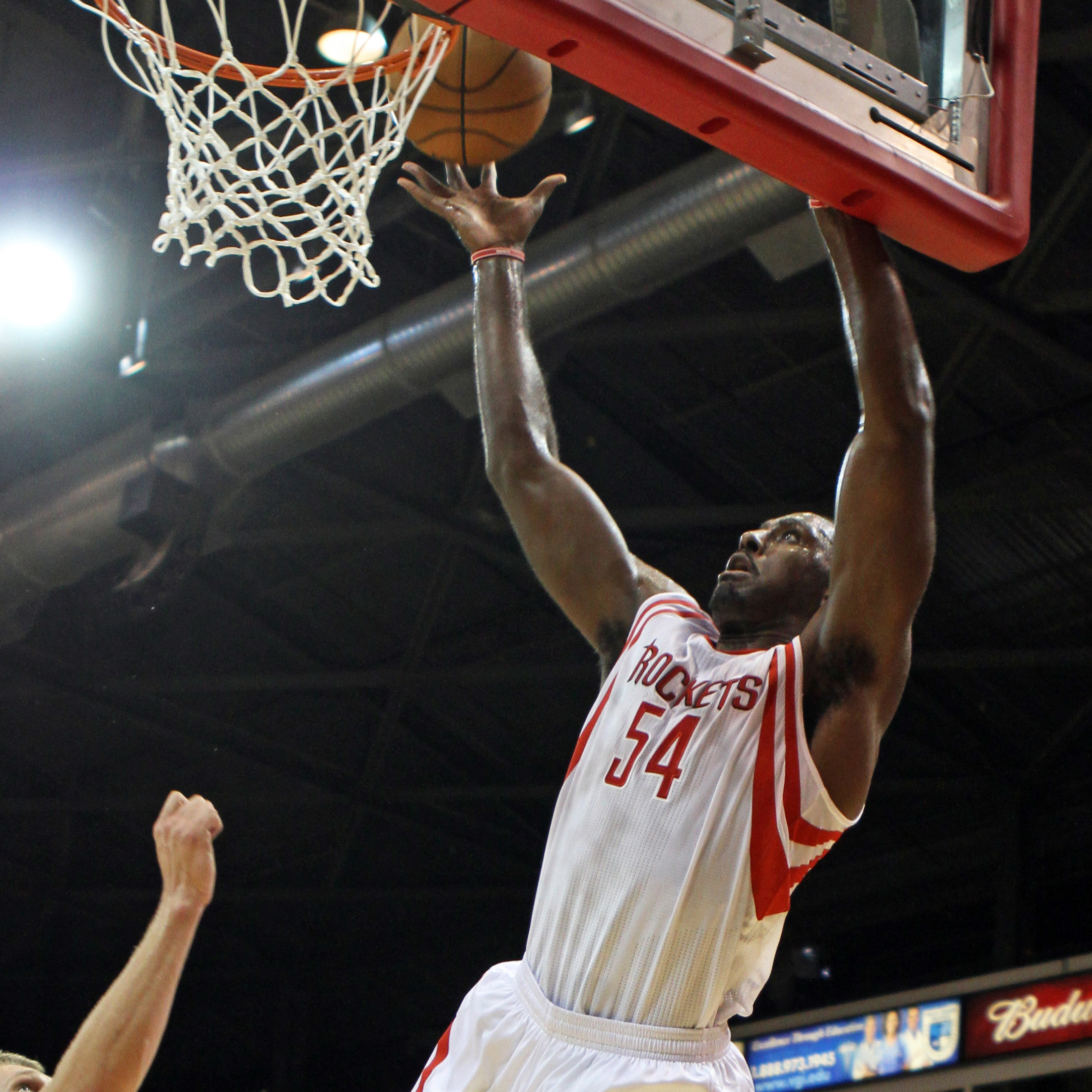 Patrick Patterson